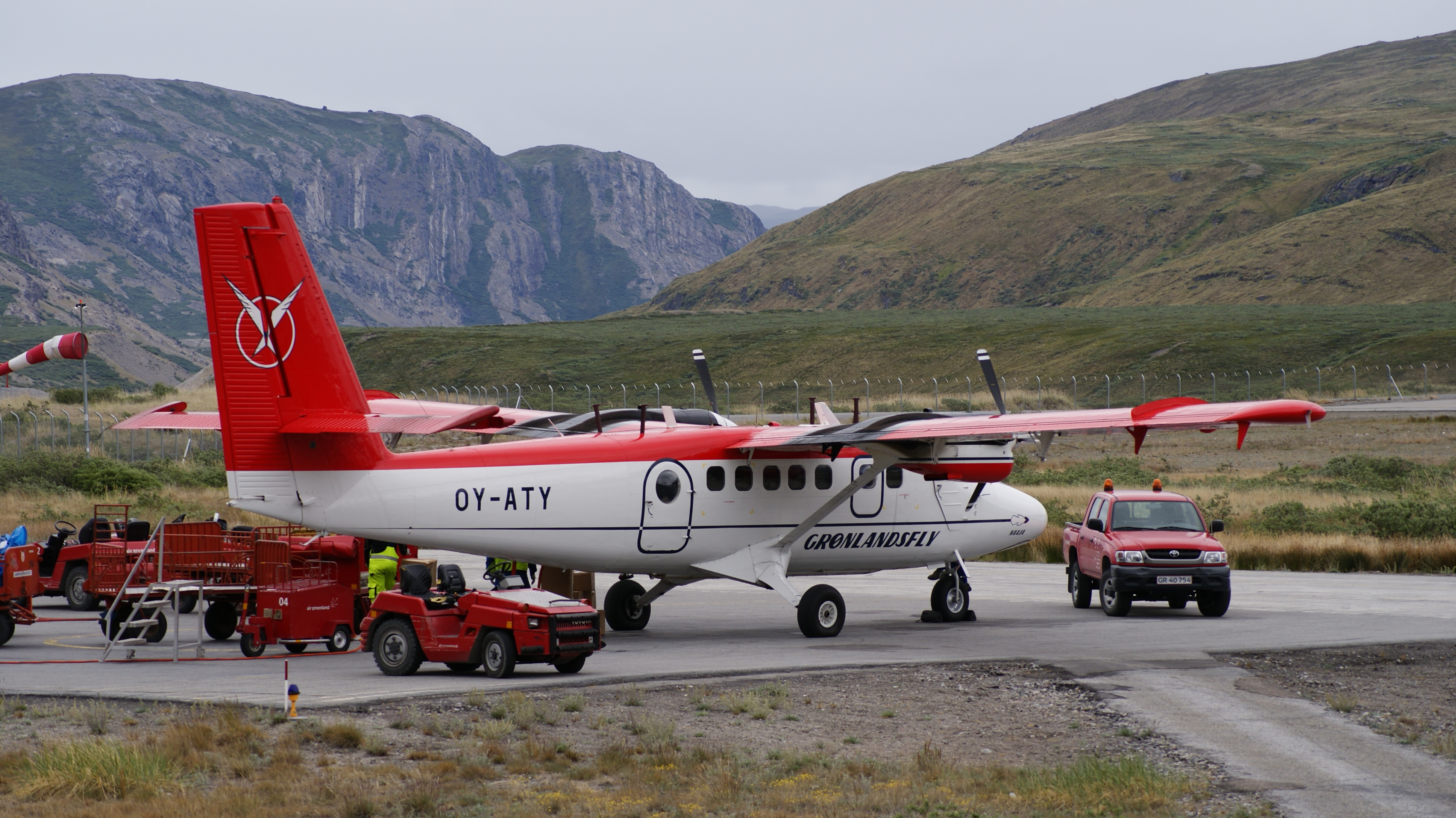 Air Greenland de Havilland Canada Dash-6 Twin Otter at Kangerlussuaq Airport, Greenland.